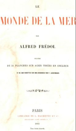 Front page